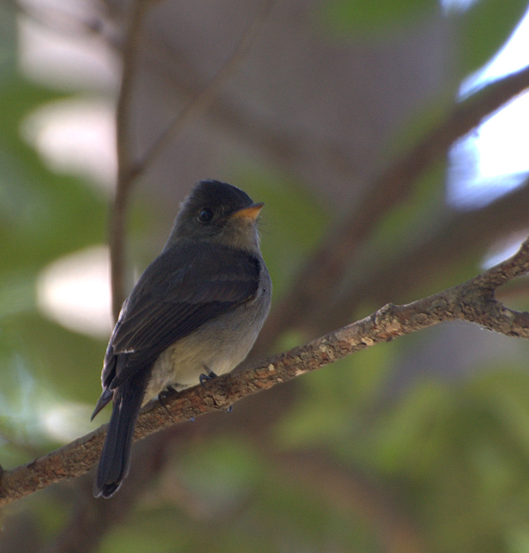 Tropical Pewee (Contopus cinereus), the nominate subspecies.